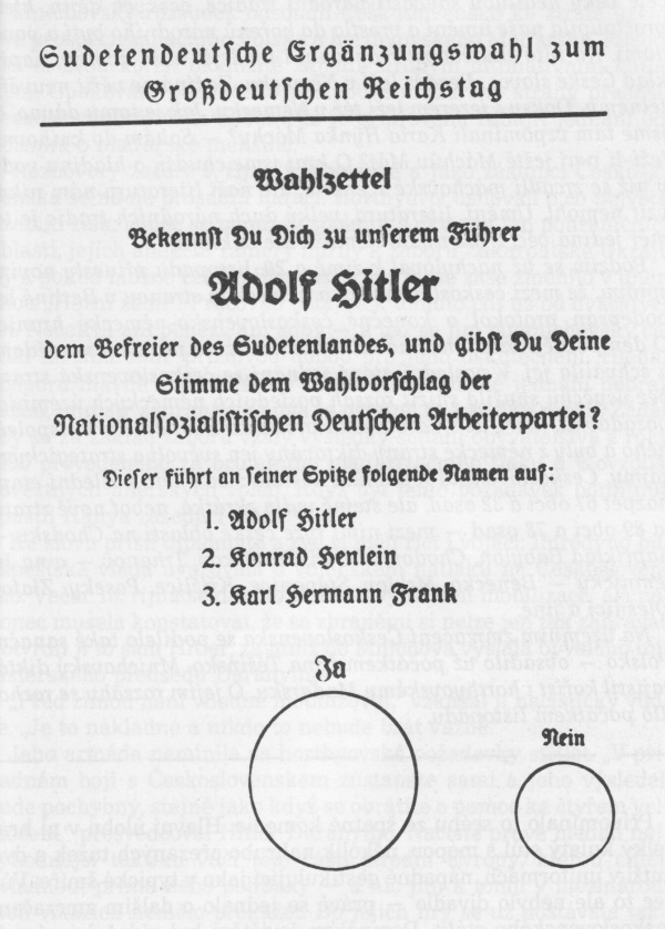 Election farce in the Reichstag in Sudety - December 1938